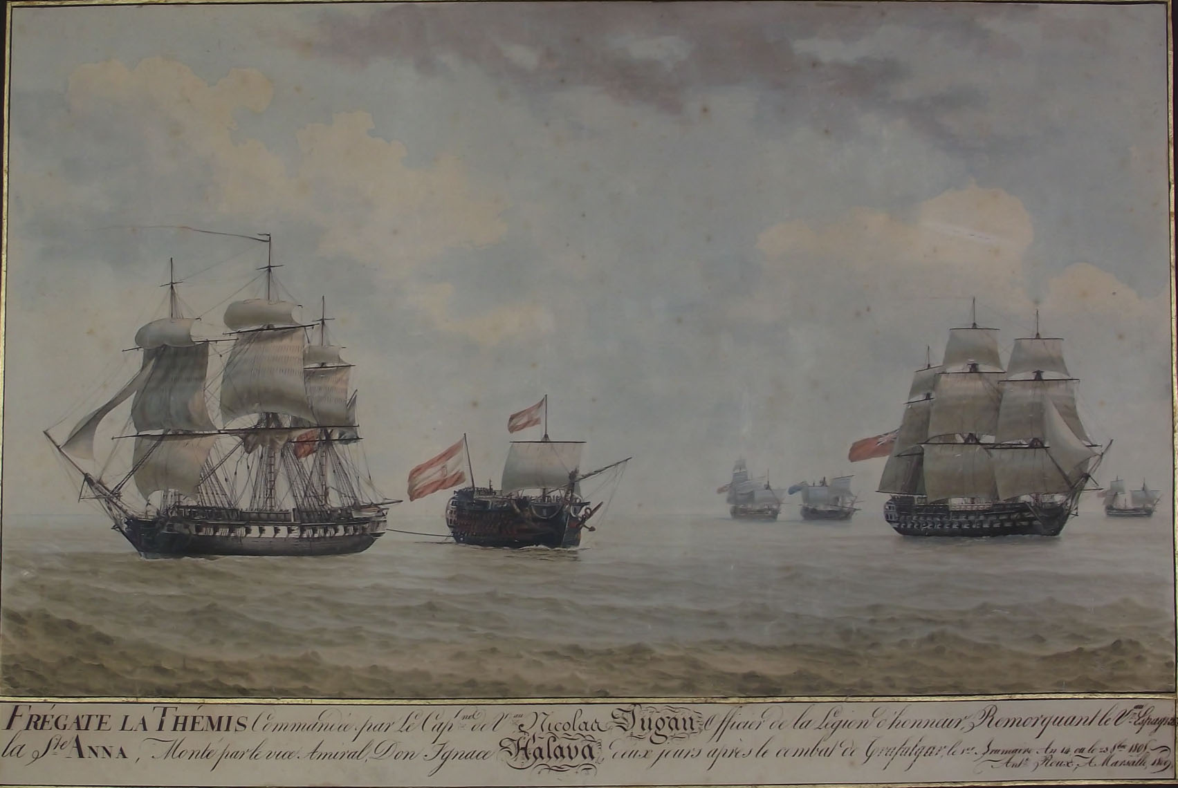 Thémis with Santa Ana in tow in the aftermath of the Battle of Trafalgar.